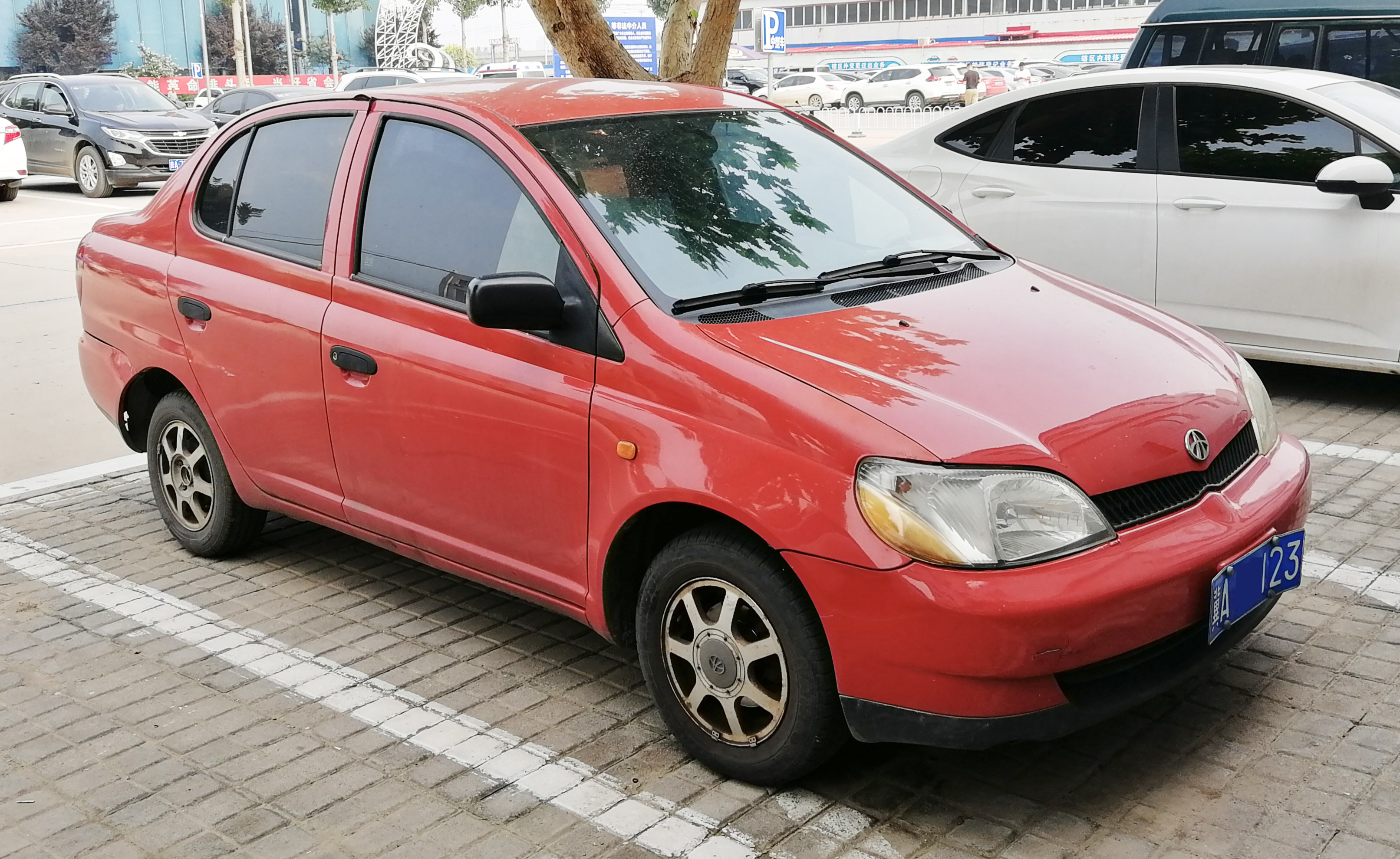 A 2002 FAW-Tianjin Xiali 2000 photographed in Shijiazhuang, Hebei province, China